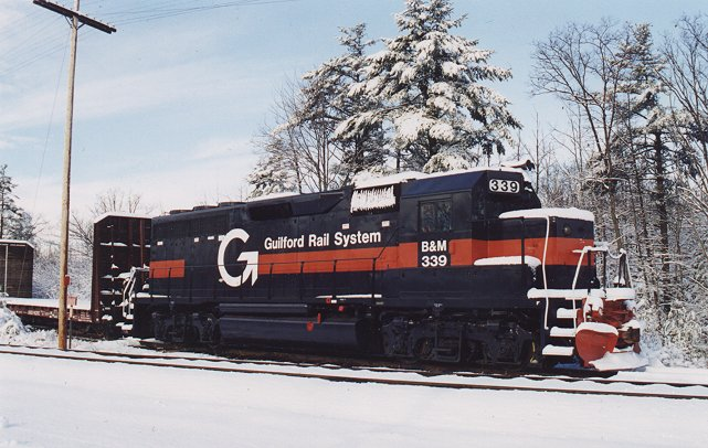 An EMD GP40 at the Wells Industrial Park in Wells, Maine, adjacent to the mainline of Guilford Rail System (formerly the Boston and Maine Railroad).